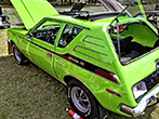 1972 Gremlin X with optional factory sunroof and V8